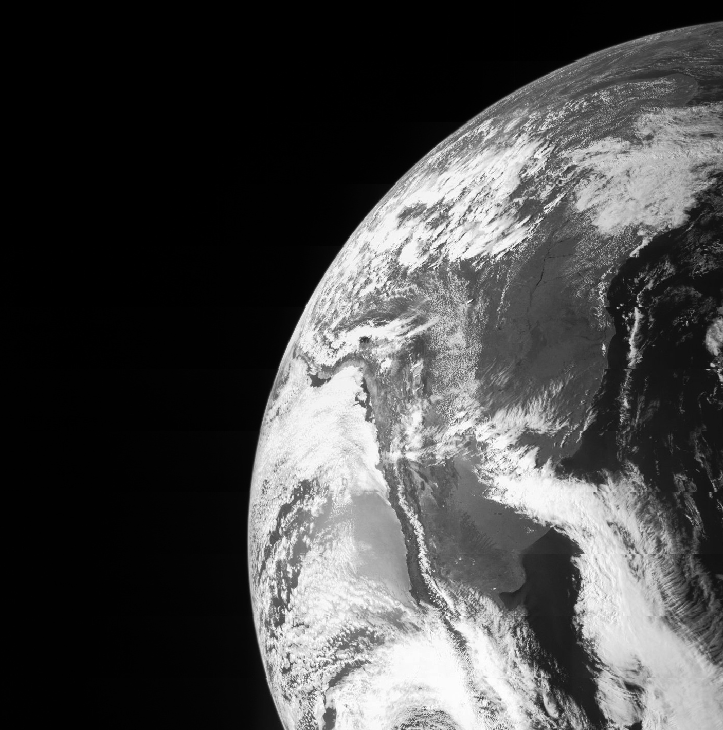 Earth as seen by JunoCam on its 9 October 2013 Earth flyby. The southern two-thirds of South America is visible.